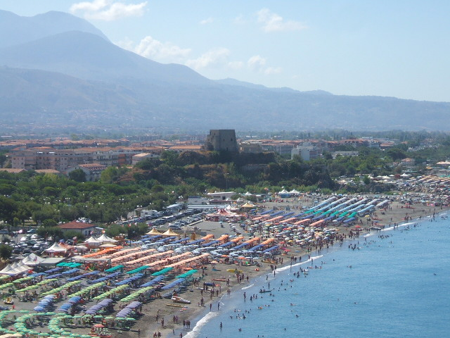 Image of the beach of Scalea with the Talao Tower